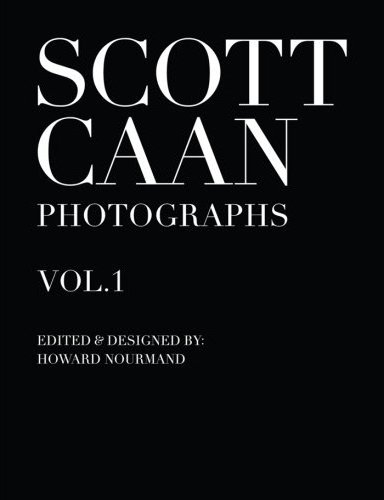 Scott Caan Photographs [Hardcover]